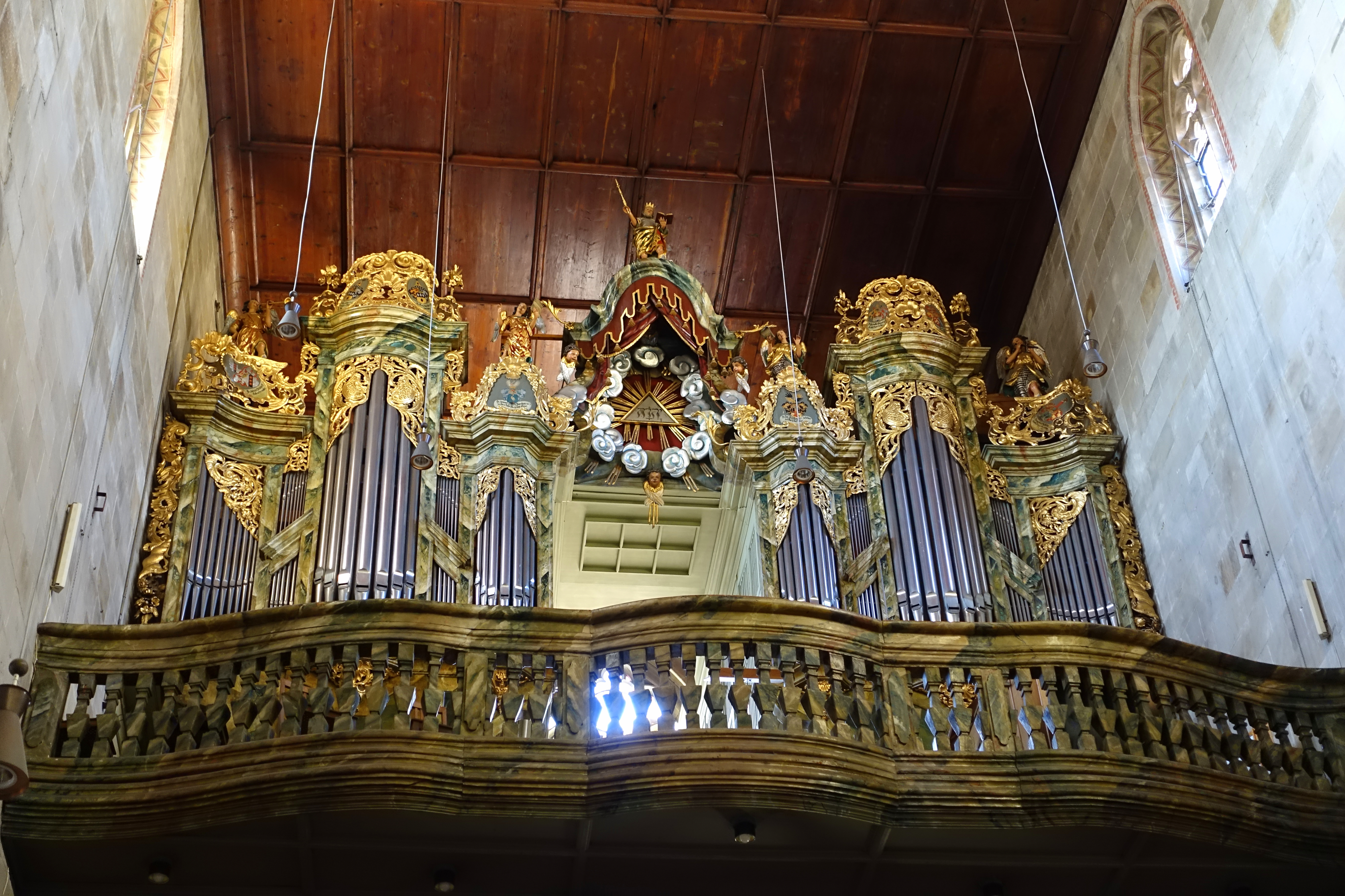 Interior view - Stadtkirche St. Dionys - Esslingen am Neckar, Germany.